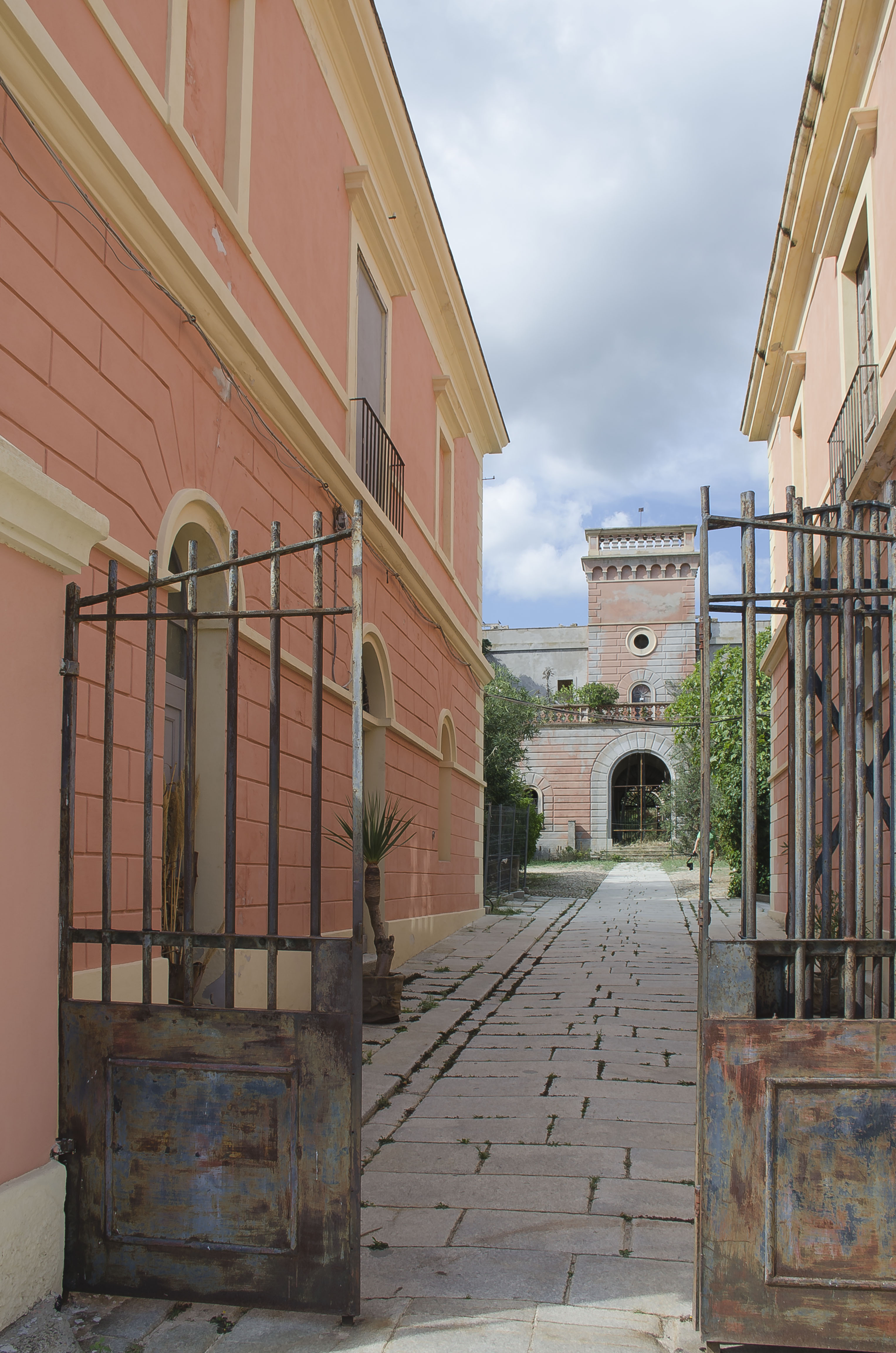 Penal colony, Castiadas, Sardinia. Entrance.